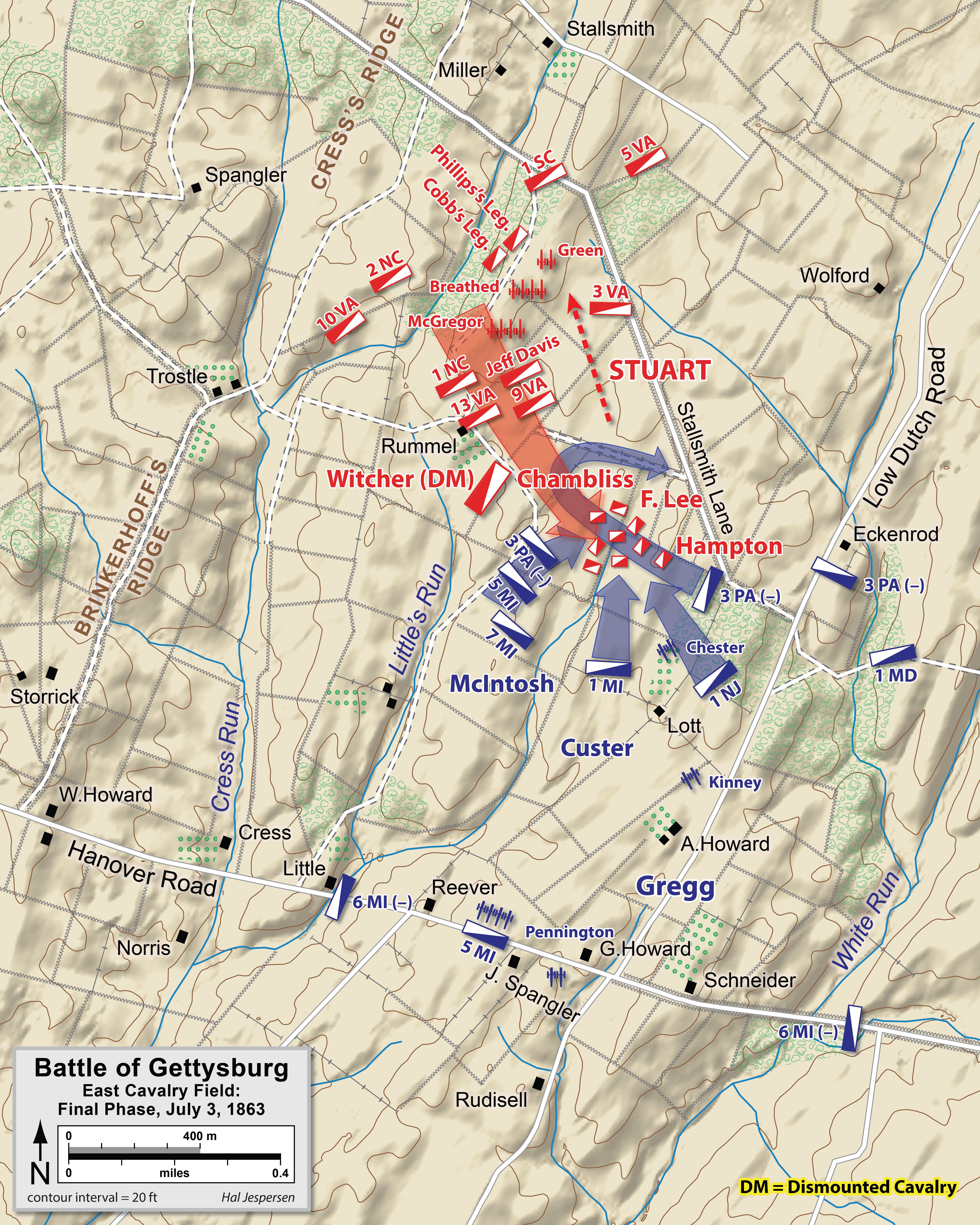 Map of actions in the Battle of Gettysburg, third day, East Cavalry Field (2 of 3). New version improves accuracy of unit positions and graphic style that matches others in the Gettysburg series. Added legend box.